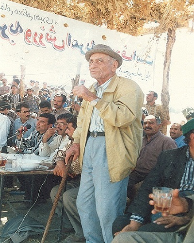 پهلوان ابوالقاسم سخدری در گود کشتی با چوخه روستای حاجی‌آباد زبرخان نیشابور-عکس از آلبوم شخصی علی حاجی‌آبادی